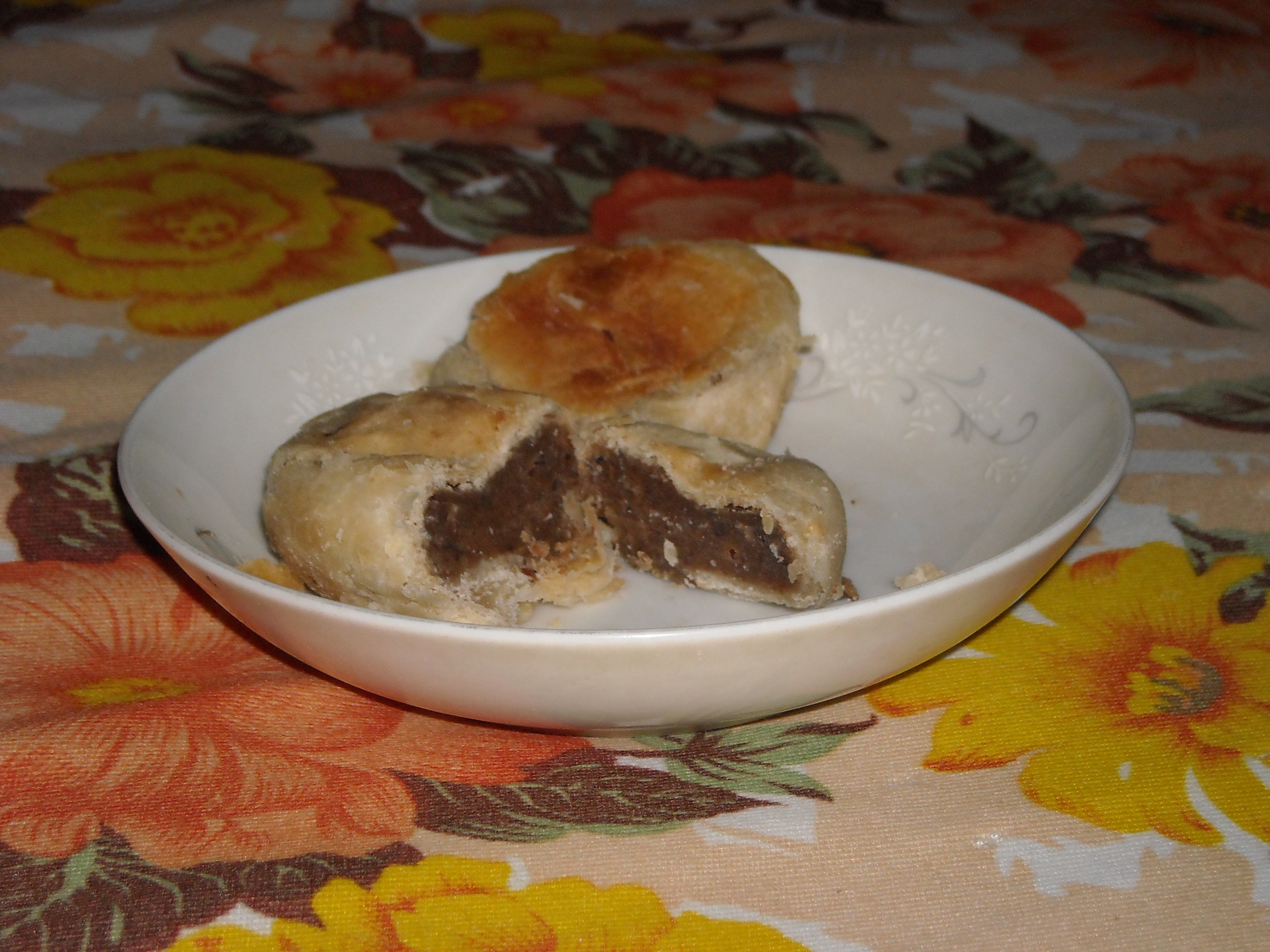 Two hopia desserts that I had minutes ago.